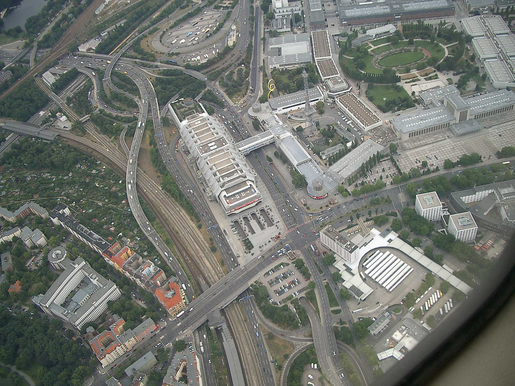 aerial view of International Congress Center (ICC) Berlin, Germany